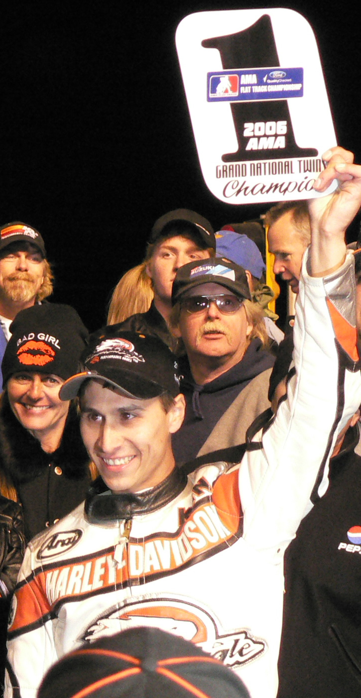 Kenny Coolbeth 2006 Flat Track National Champion. In a very tight points race that came down the last race of the season Kenny Coolbeth went out and won the feature and the championship at Schioto Downs in Columbus, OH. This is his first championship ever. I will never understand the Plastic Card trophies that the AMA gives out for it's championship trophies.